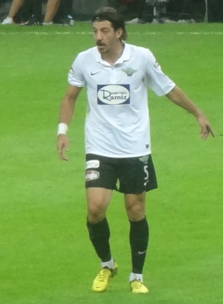 GS - Akhisar